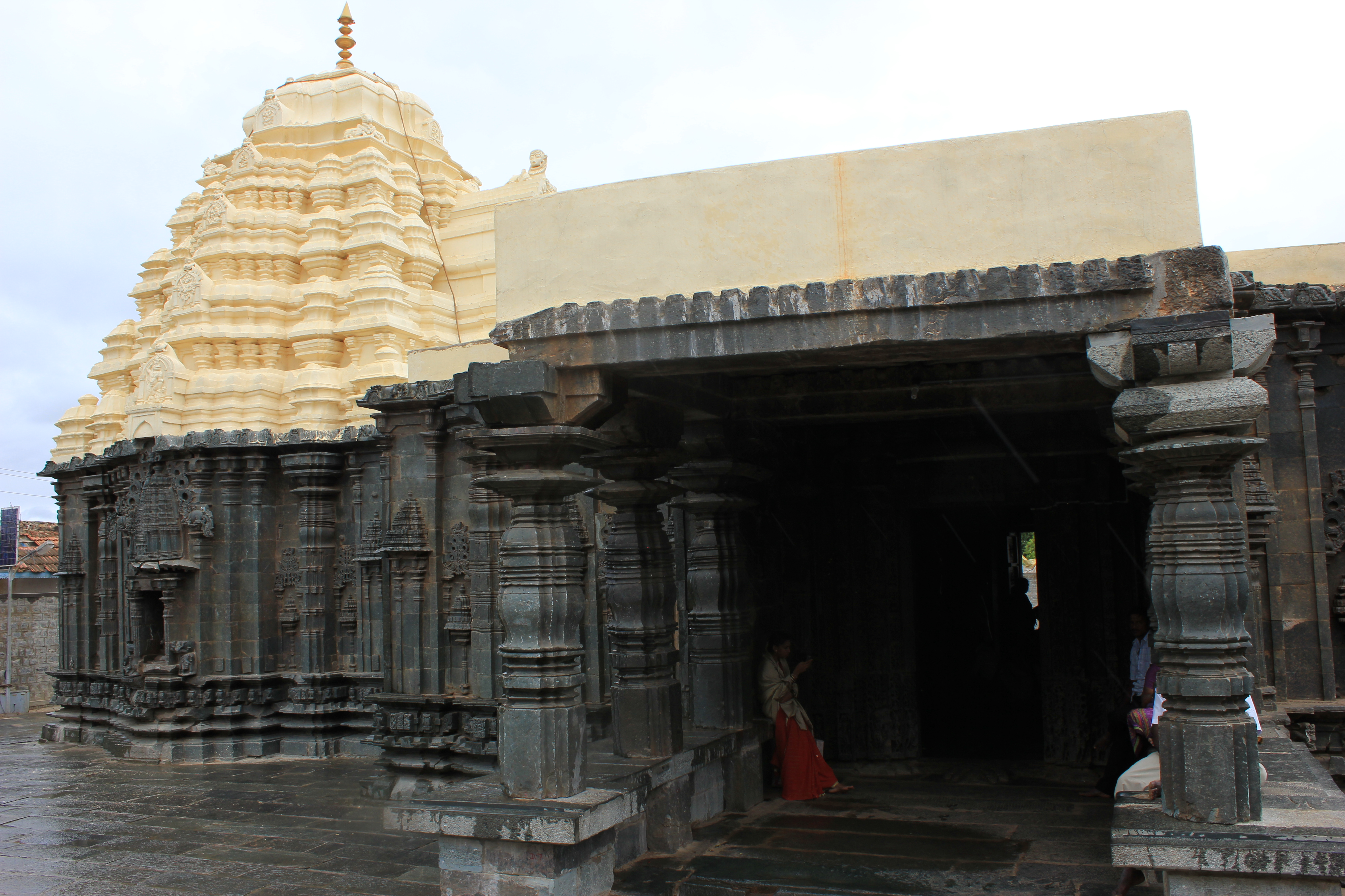 This photograph was taken by me at the Mallikarjuna temple at Kuruvatti (also spelt Kuruvathi) in Karnataka state, India. This ornate temple is a fine example of 11th century Western (Kalyani) Chalukya architecture.